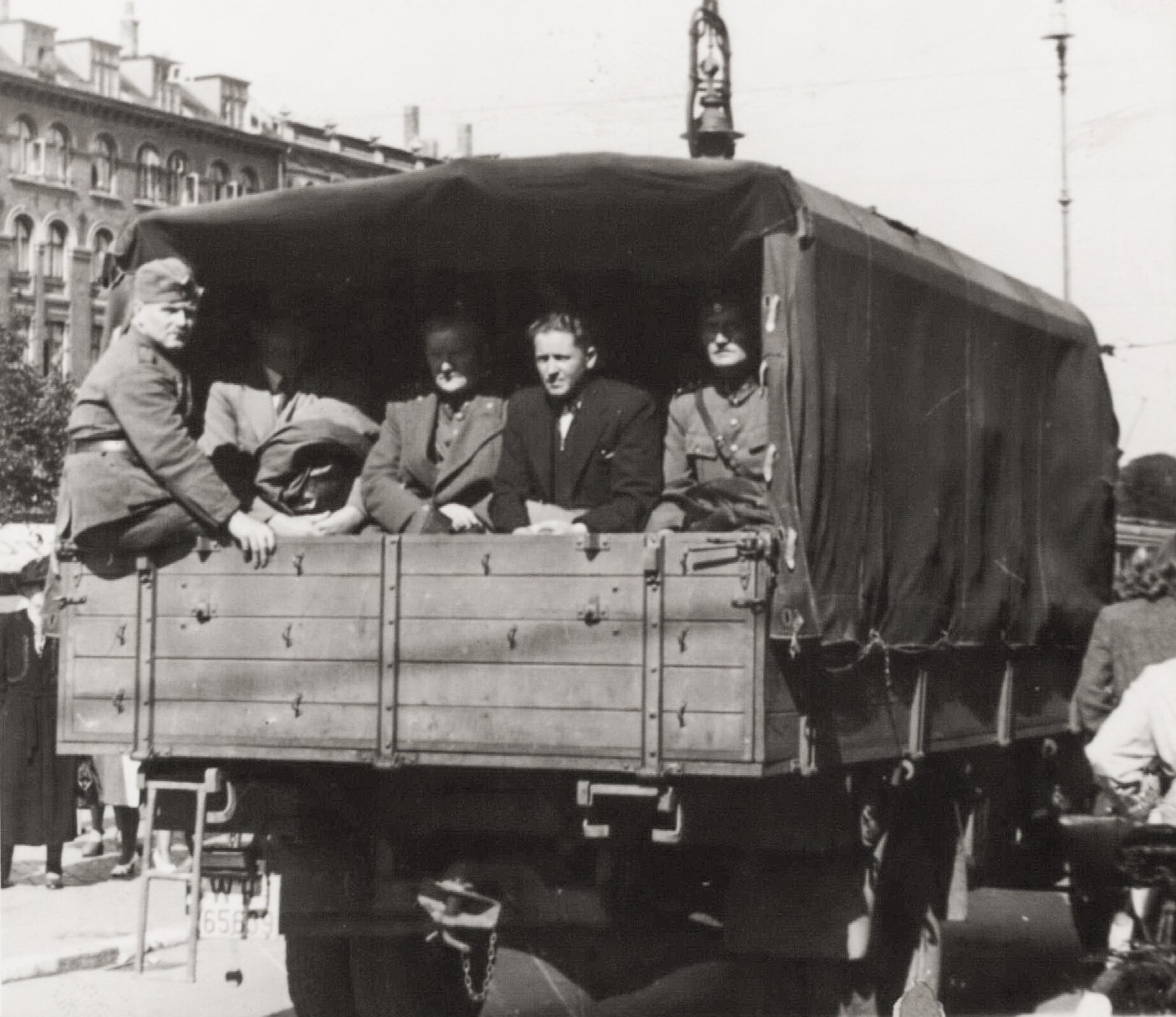 Danish officers are detained on 29 August 1943